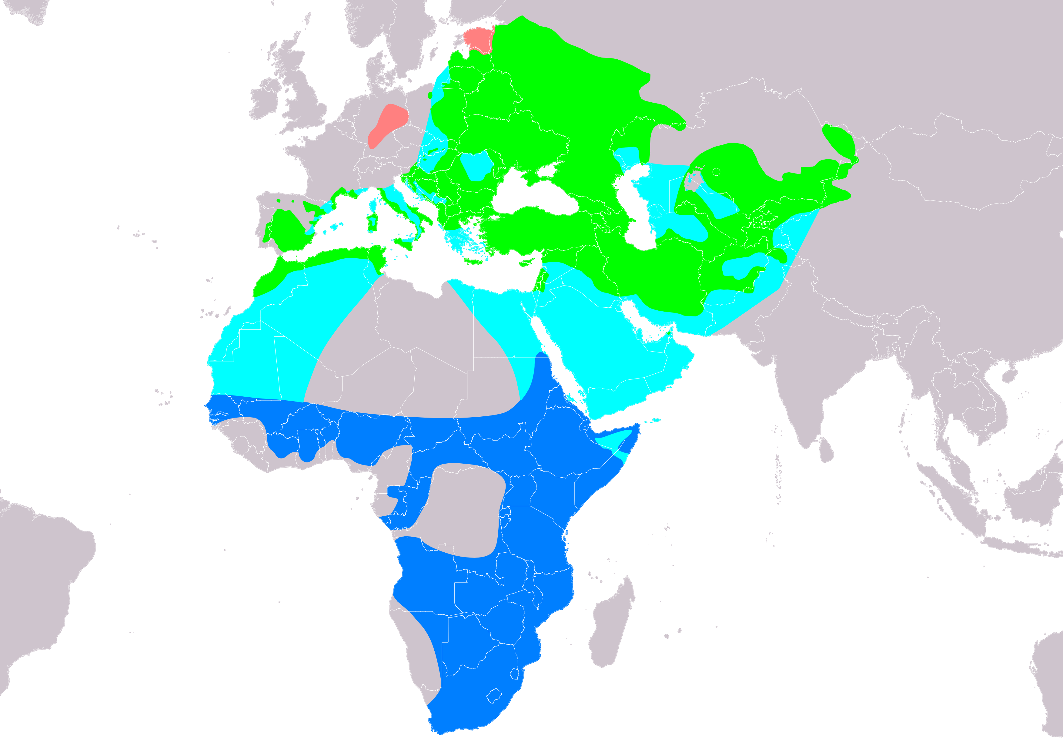 Distribution map of European Roller (Coracias garrulus) according to IUCN version 2019-2; key: Legend: Extant, breeding (#00FF00), Extant, non-breeding (#007FFF), Probably extinct (#FF8080)